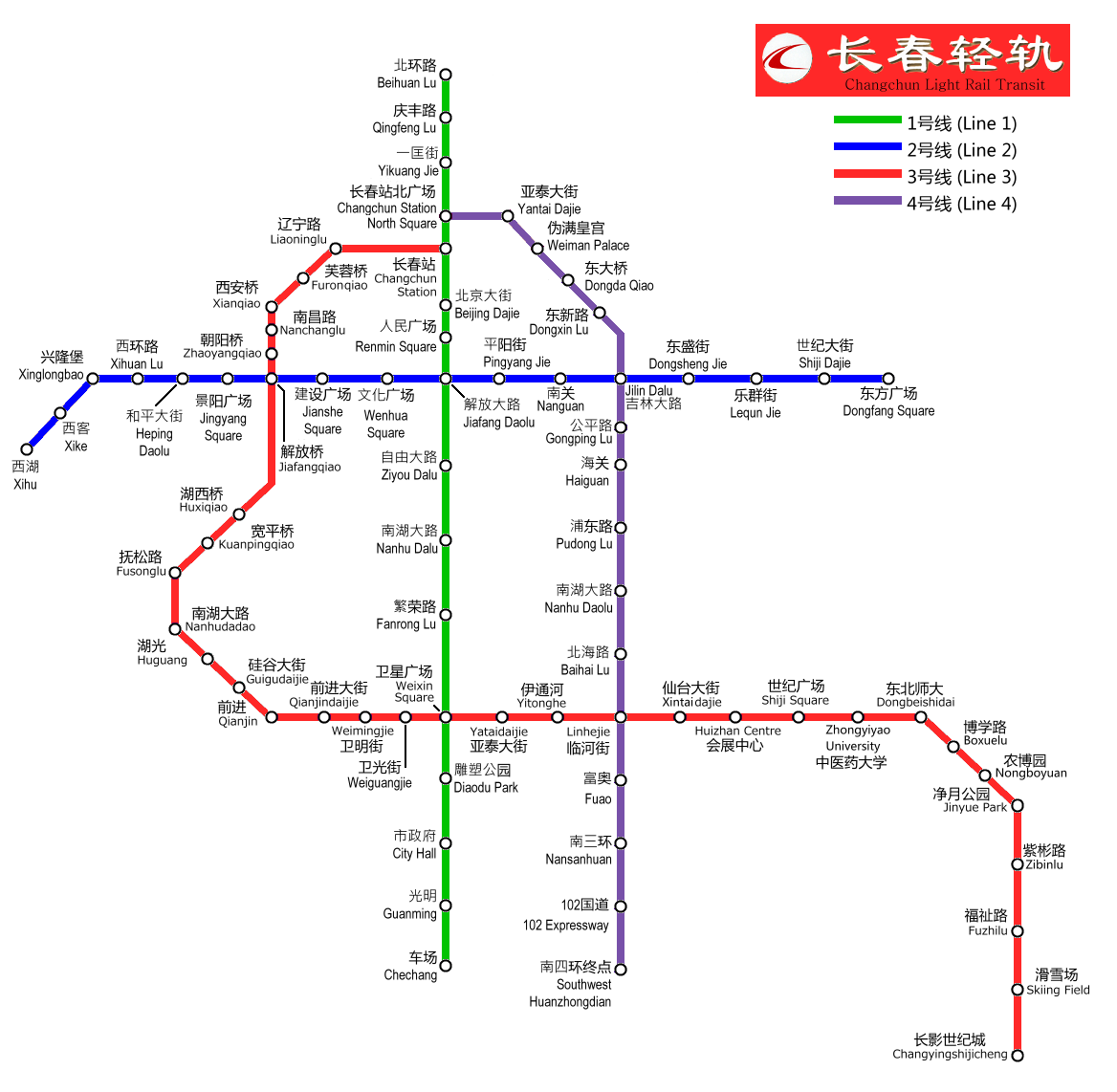 current map of Changchun Light Rail Transit